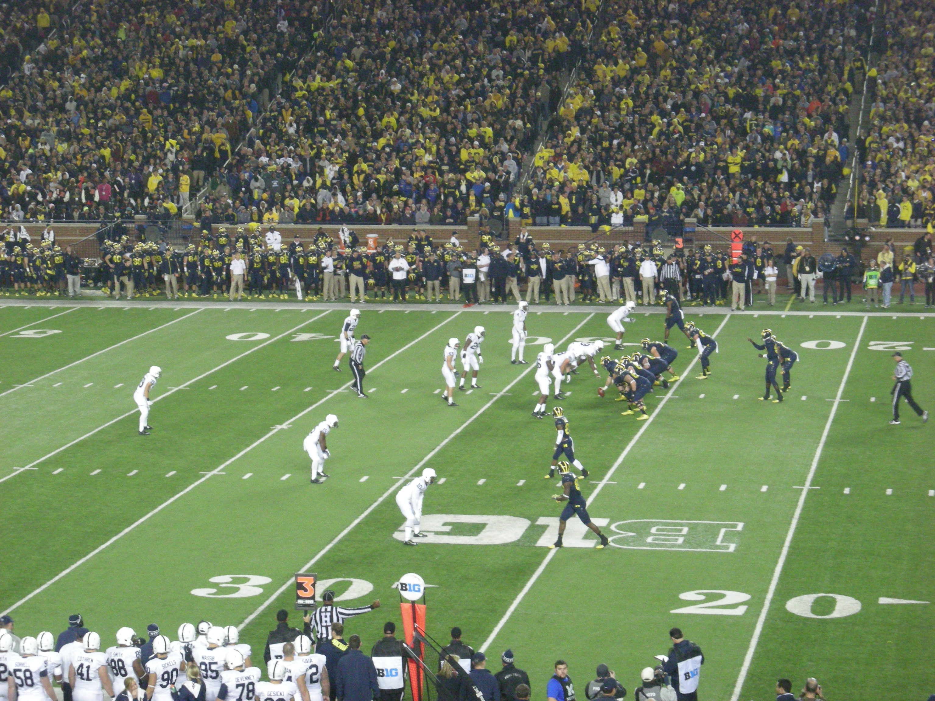 Michigan on offense during the Penn State Nittany Lions vs. Michigan Wolverines football game at Michigan Stadium in Ann Arbor, Michigan (United States). Michigan won 18–13.